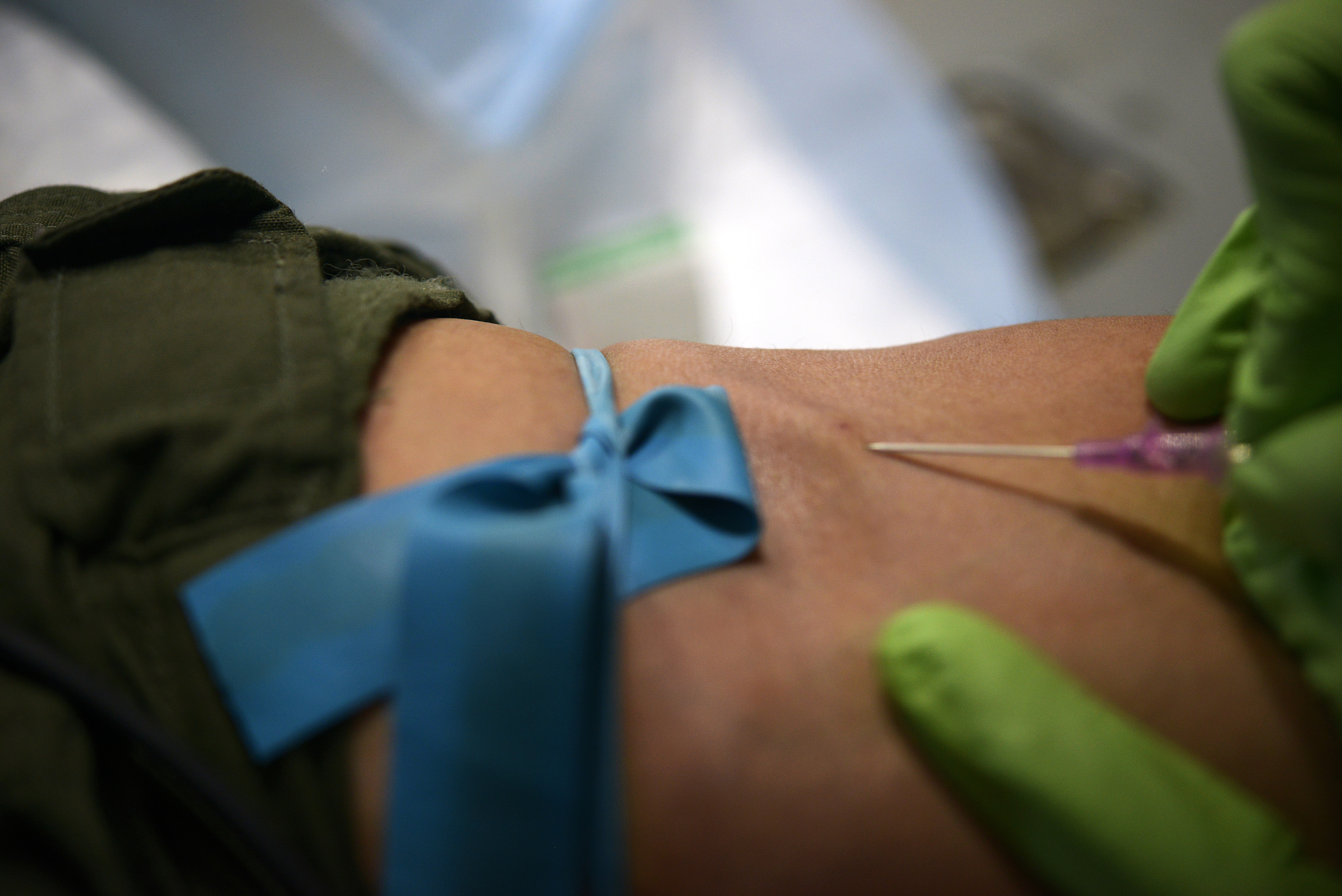 A U.S. Air Force 18th Aeromedical Evacuation Squadron technician sticks a needle into the arm vein of another 18th AES member to practice drawing blood during a training flight near Okinawa, Japan, Jan. 23, 2015. The 18th AES maintains a forward presence and supports medical contingencies in the Pacific to include the only neonatal air facility in the region. The squadron's area of operations is the largest in the military, reaching from the Horn of Africa to Alaska. (U.S. Air Force photo by Senior Airman Maeson L. Elleman)